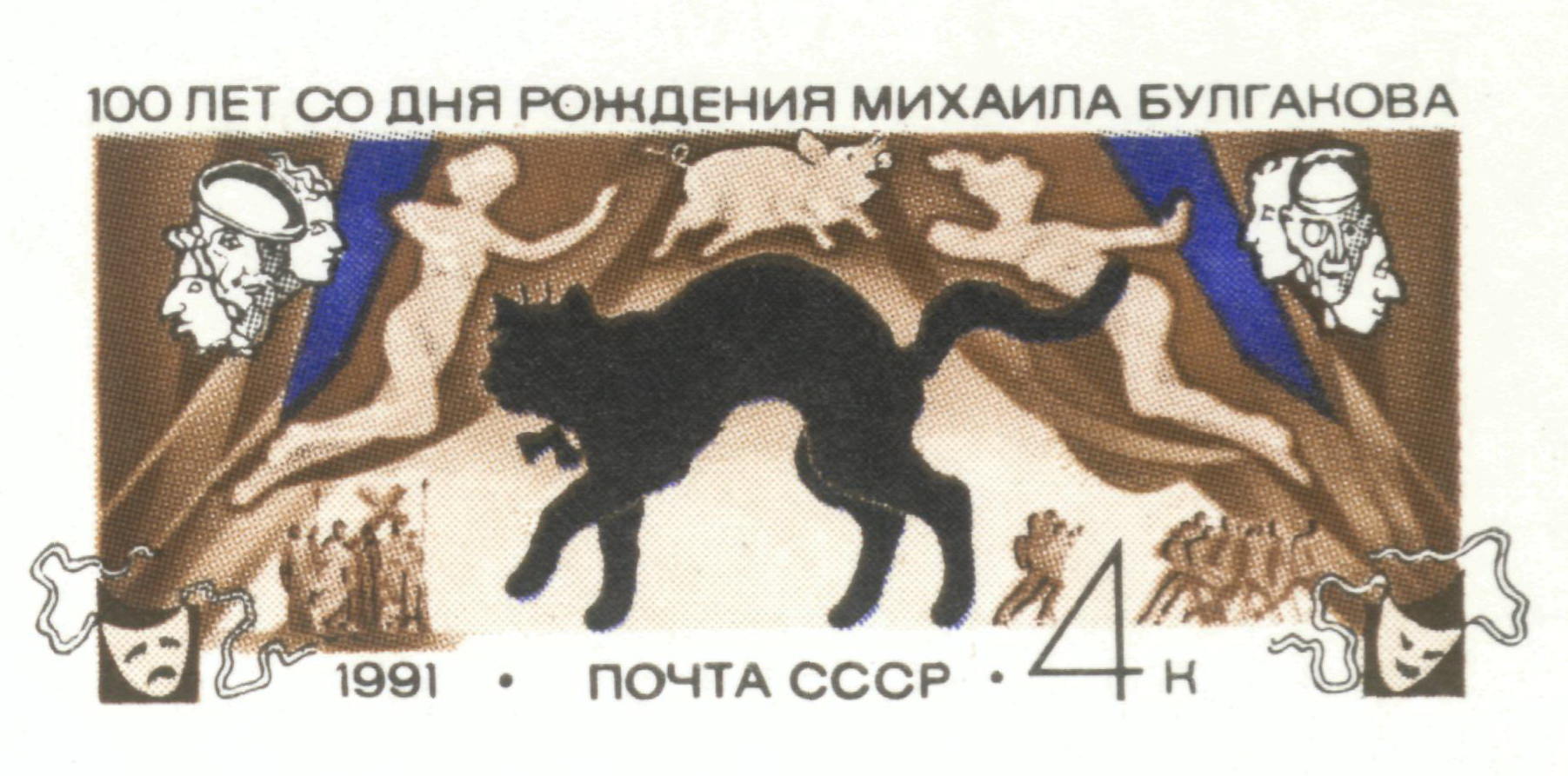 Soviet preprinted (original) stamp of 4 kopecks, 1991. Mikhail Bulgakov. Detail of a postcard of the Soviet Union (postal stationery).